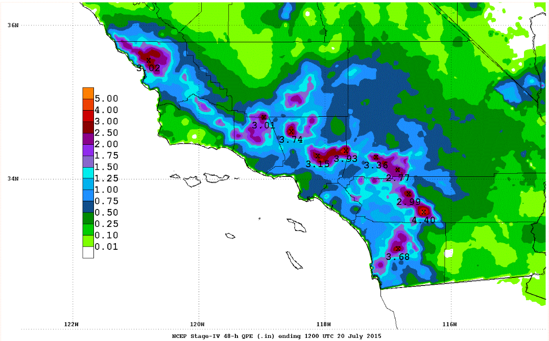 Rainfall map showing rainfall from the remnants of Hurricane Dolores (2015) in Southern California. From NOAA/NHC Tropical Cyclone Report.